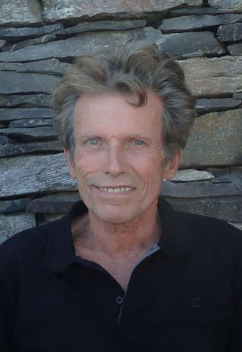 Snapshot of french cartoonist Francis Masse.